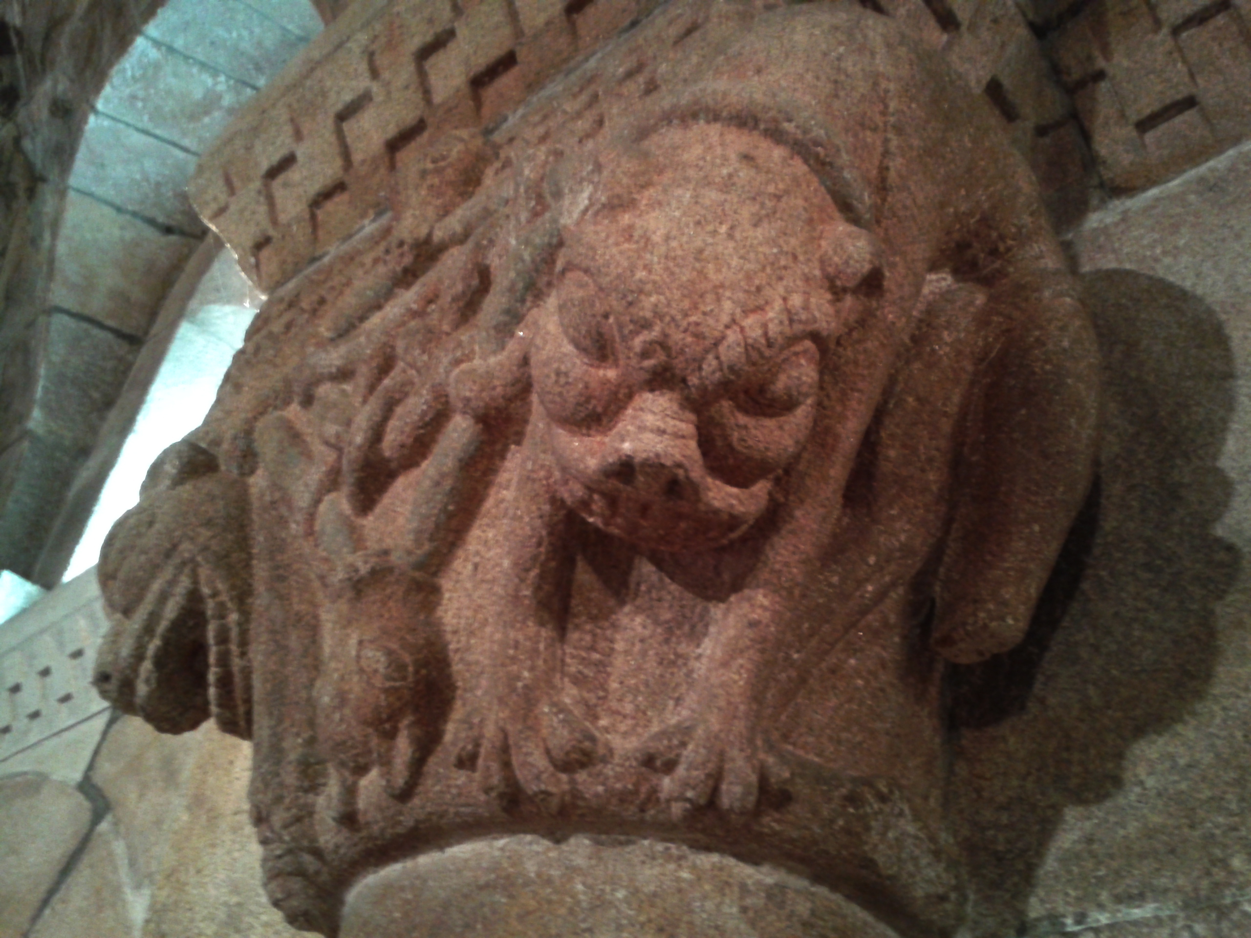 The Beasts in the 12th century São Cristóvão de Rio Mau Monastery